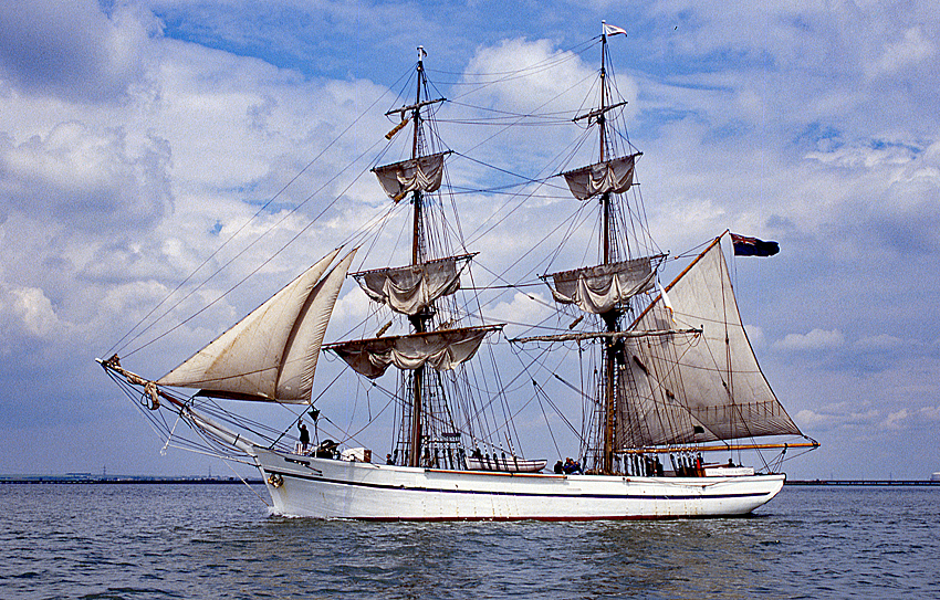 Maria Asumpta brig on the Medway in 1991 on a press trip. Scanned from a Fujichrome 35mm slide.